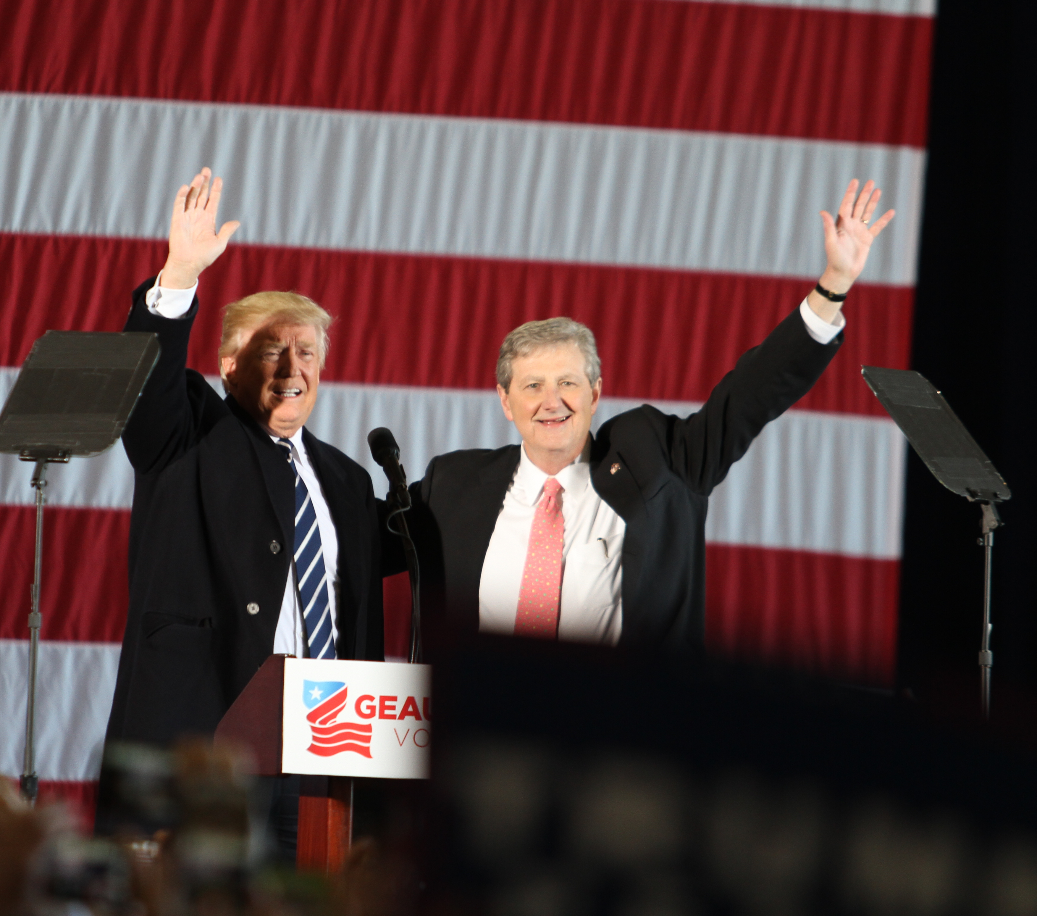 LAGOP Rally, December 9, 2016, Dow Hangar, Baton Rouge, Louisiana, Tammy Anthony Baker, Photographer